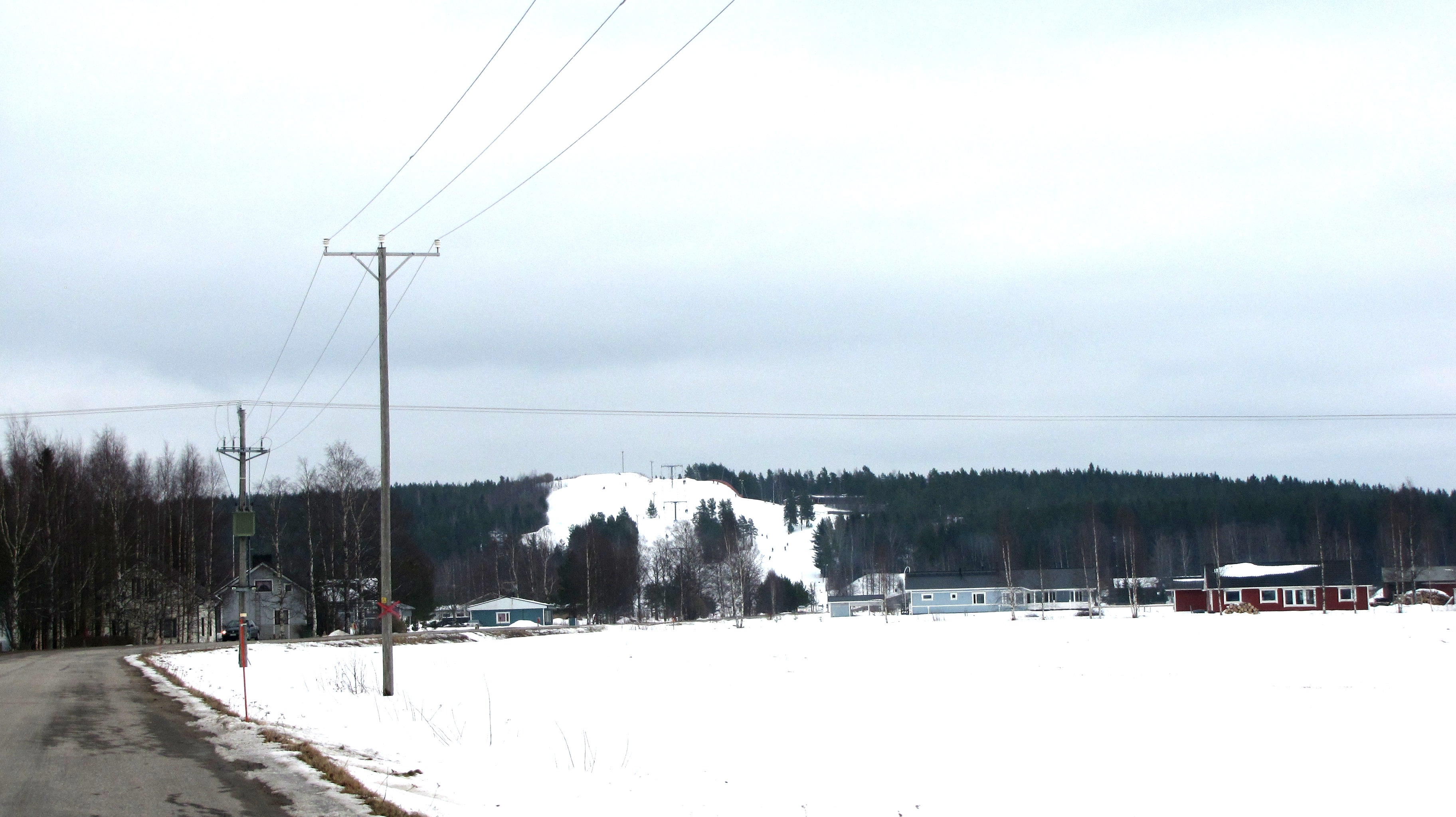 Sotkanrinteet ski resort in Kauhajoki, Finland.